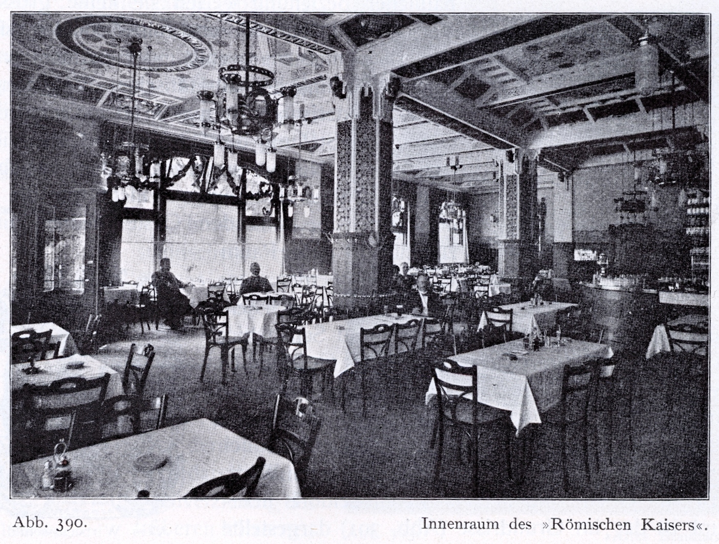 t